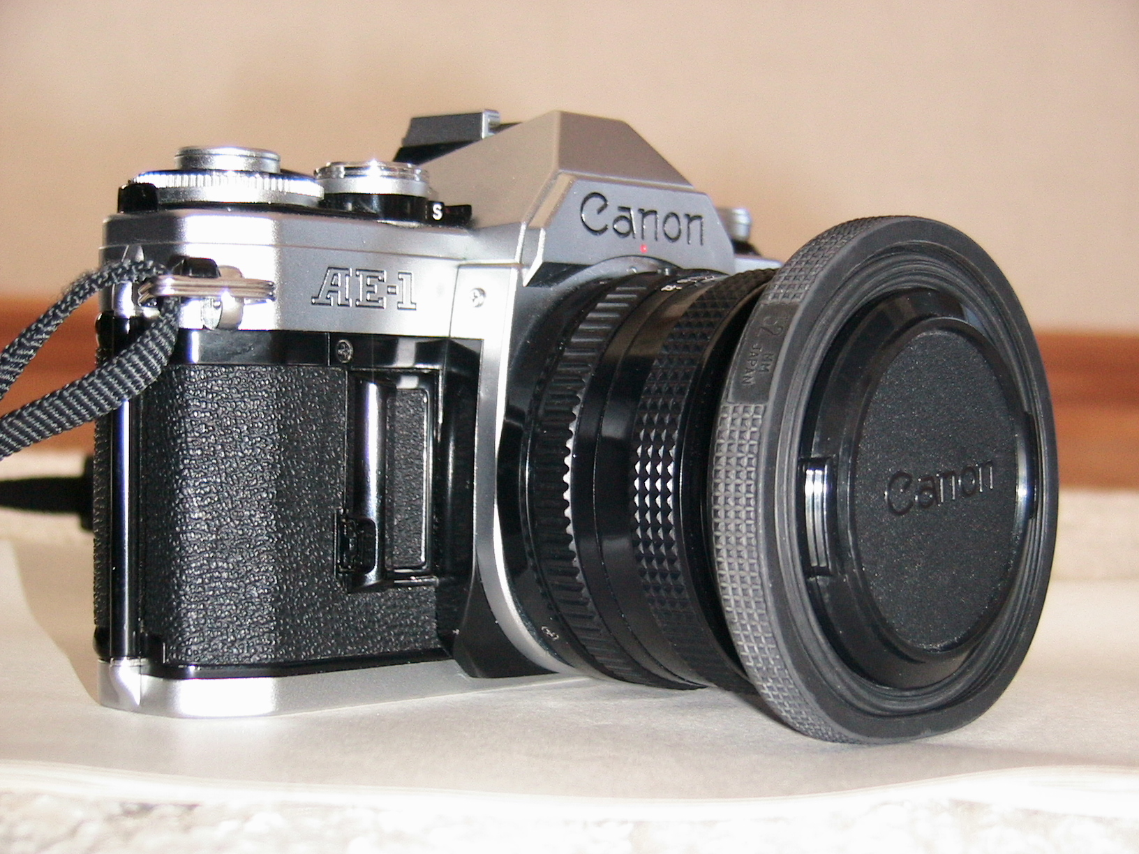 Canon AE-1 and Canon NewFD 50mm F1.8 lenses.